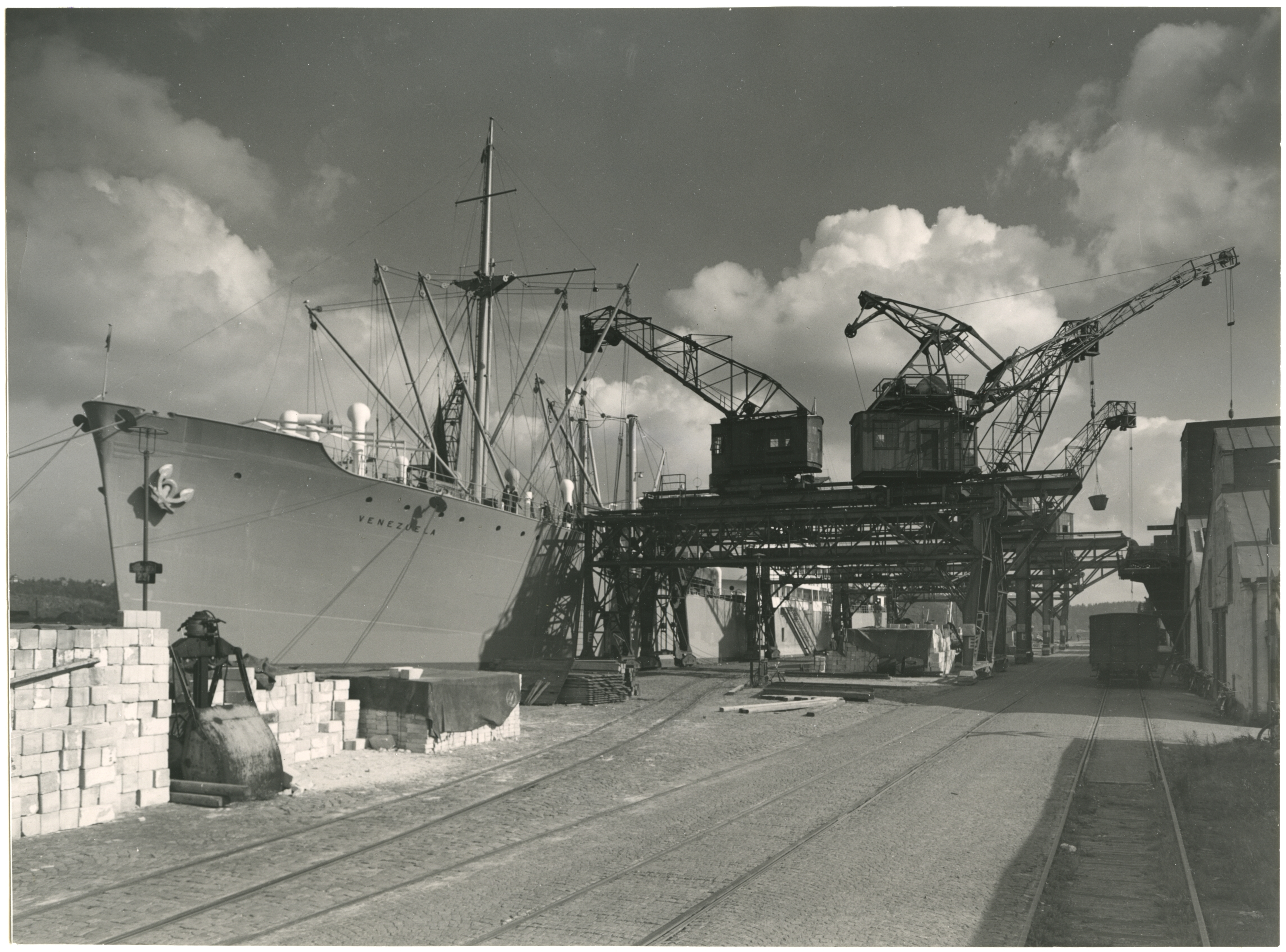 Swedish cargo ship M/S Venezuela at Gothenburg harbour in 1945